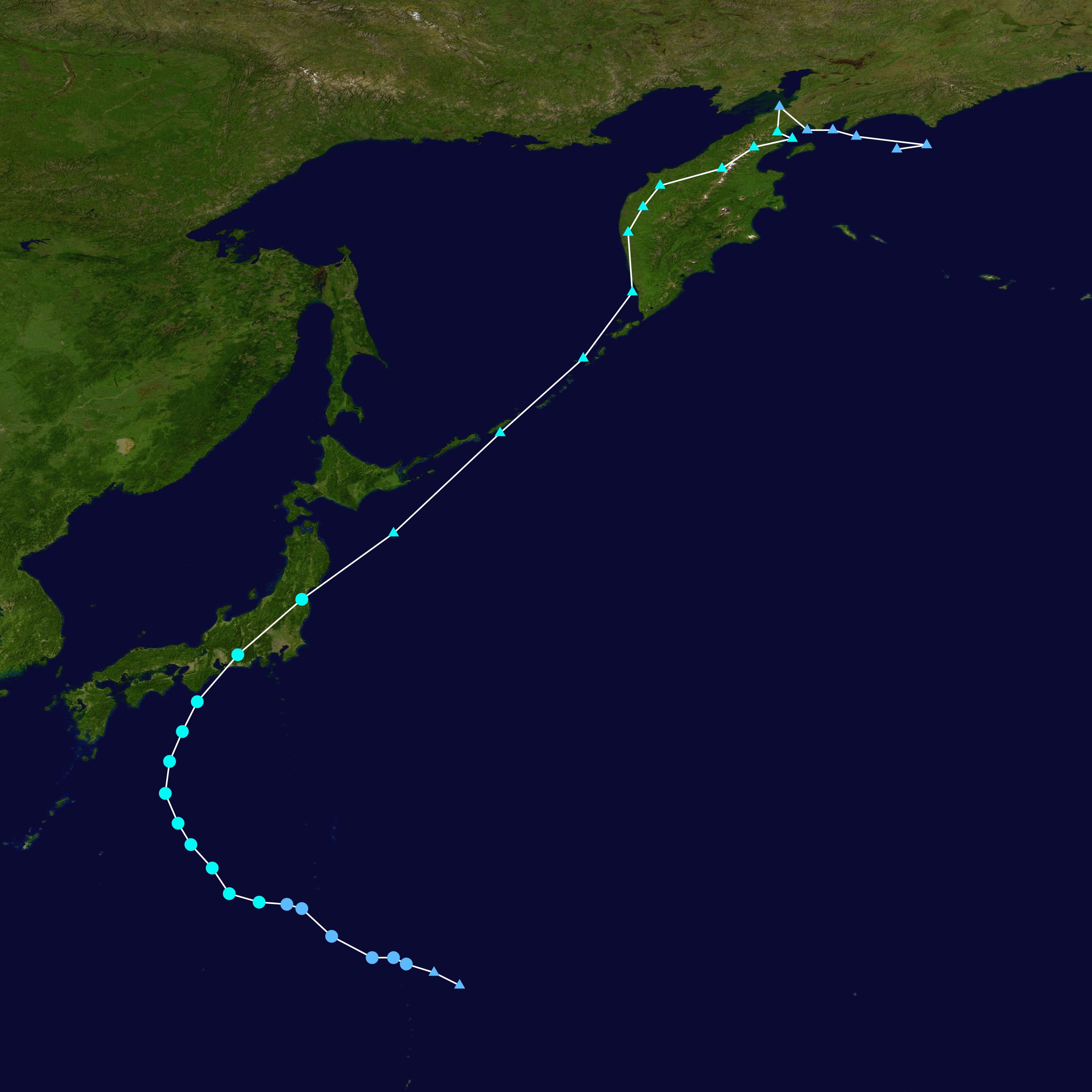 Track map of Typhoon Man-yi of the 2013 Pacific typhoon season. The points show the location of the storm at 6-hour intervals. The colour represents the storm's maximum sustained wind speeds as classified in the Saffir–Simpson scale (see below), and the shape of the data points represent the nature of the storm, according to the legend below. Saffir–Simpson scale Tropical depression≤38 mph≤62 km/h Category 3111–129 mph178–208 km/h Tropical storm39–73 mph63–118 km/h Category 4130–156 mph209–251 km/h Category 174–95 mph119–153 km/h Category 5≥157 mph≥252 km/h Category 296–110 mph154–177 km/h Unknown Storm type Tropical cyclone Subtropical cyclone Extratropical cyclone / Remnant low / Tropical disturbance / Monsoon depression